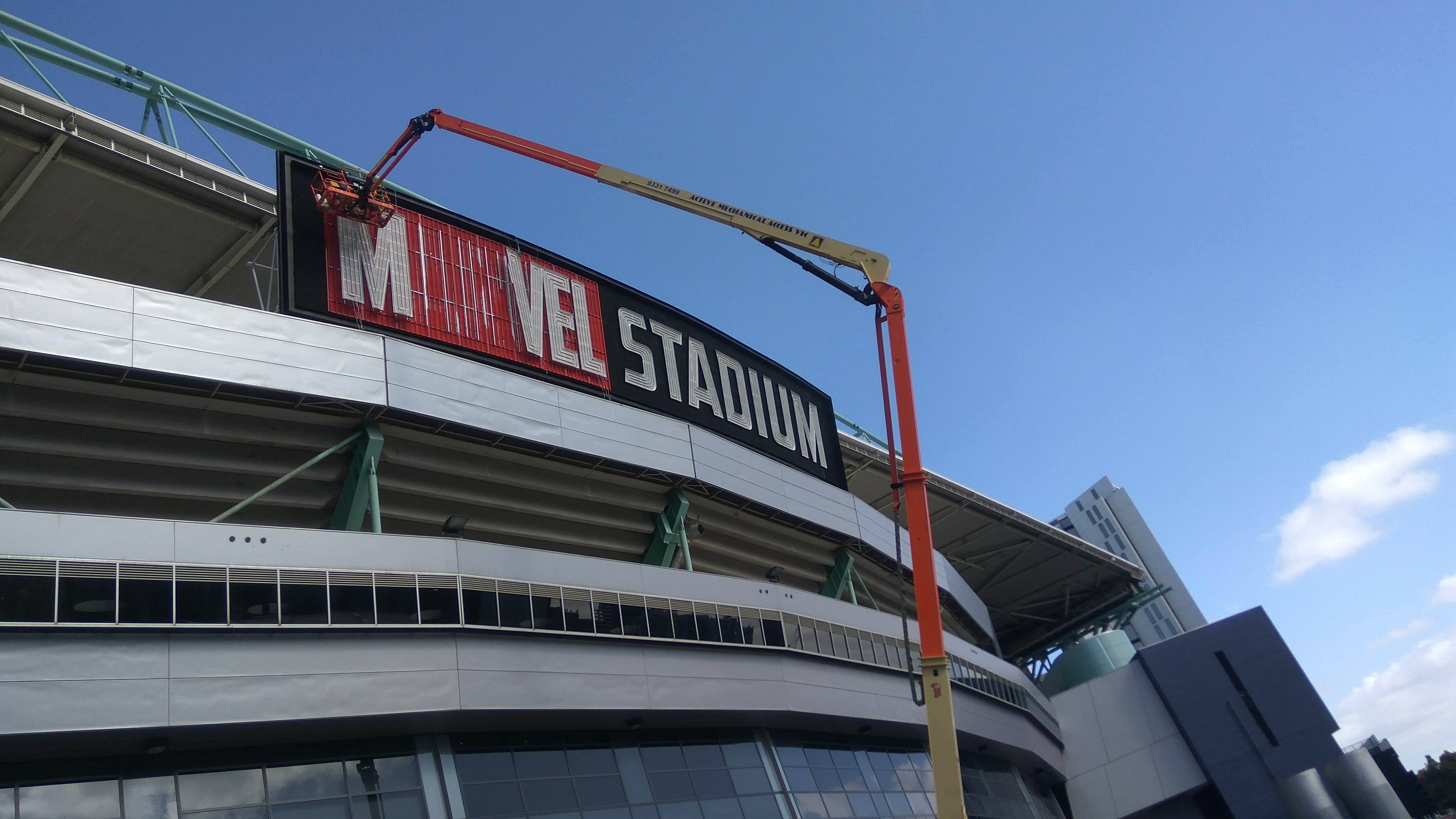 Docklands Stadium being renamed to Marvel Stadium from Etihad Stadium. Photo taken on 10 Oct 2018